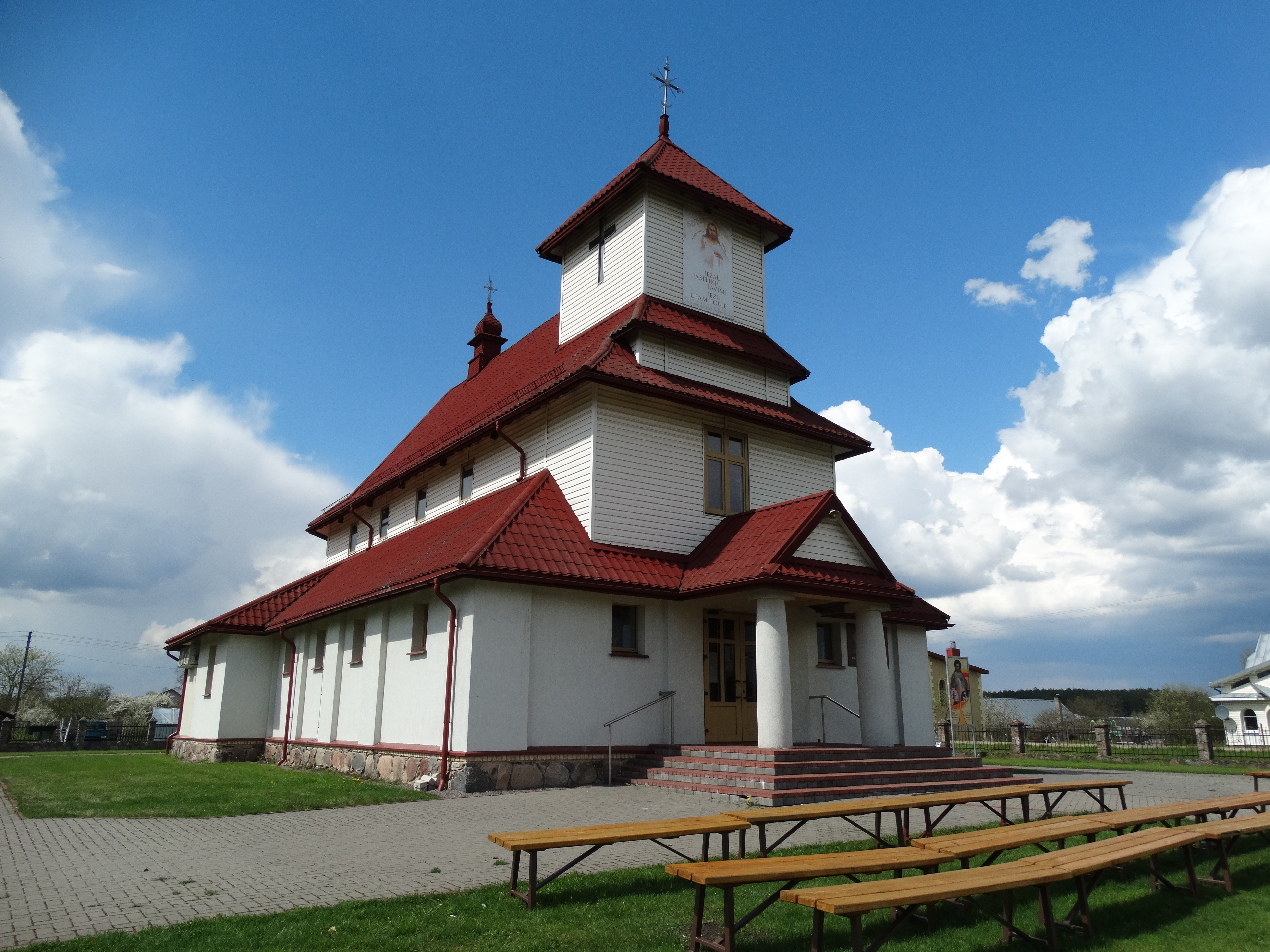 St. Anne's Catholic Church, Jašiūnai, Šalčininkai District, Lithuania